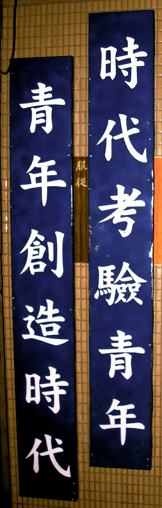 ROC Propaganda slogan, circa 1960s Taiwan. "The times test the youth. The youth create the times." Characters on the partially covered brown poster in between: "Obey".